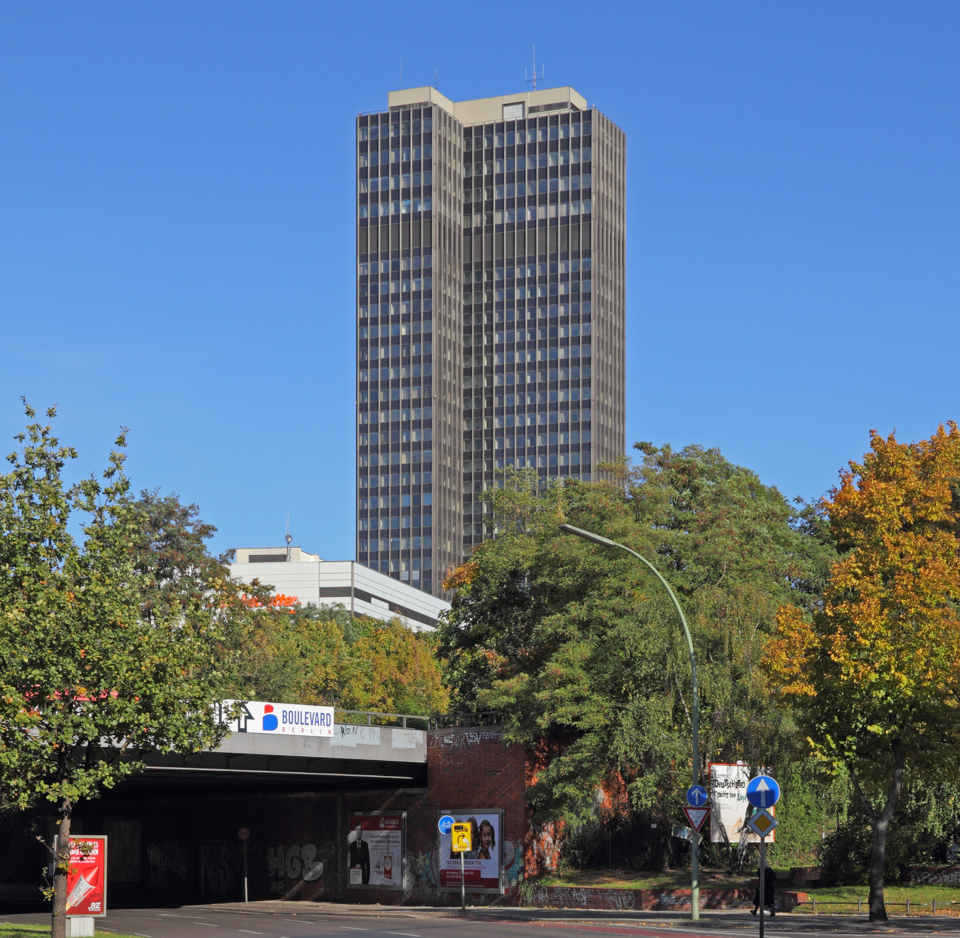 Berlin-Steglitz. Abandoned high-rise „Steglitzer Kreisel“.